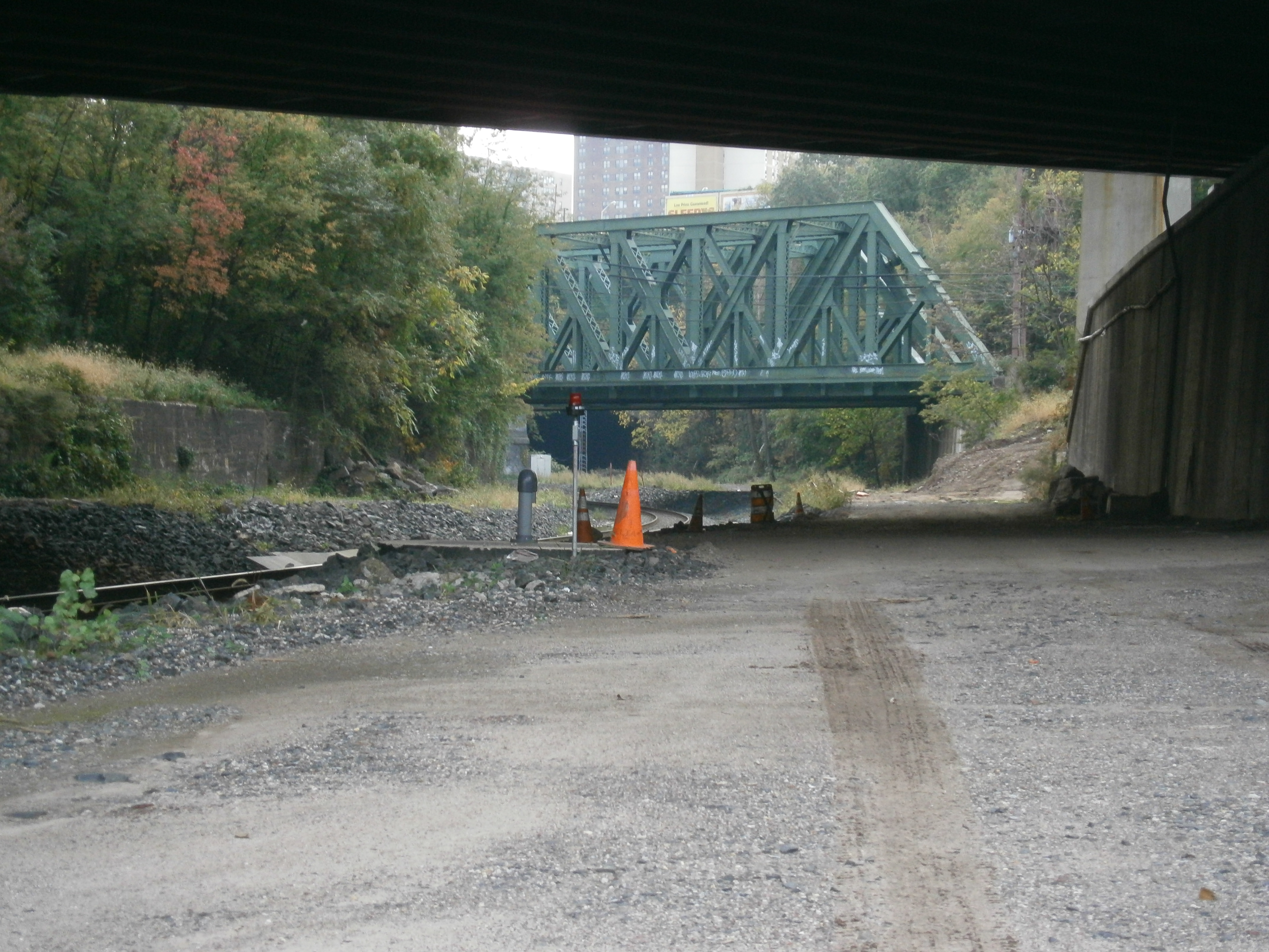 ROW originally used by Erie Railroad's Northern Branch passing under DL&W bridge at west side of Bergen Hill/Bergen Arches